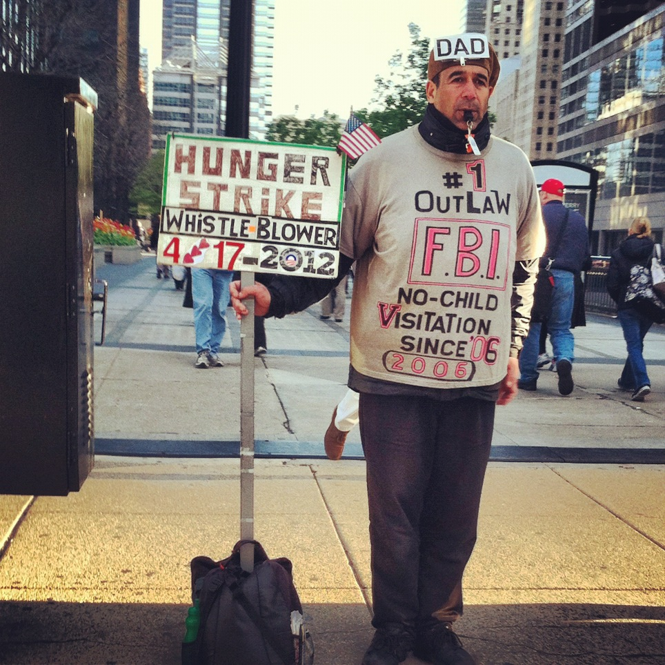 A recognized protester in Chicago